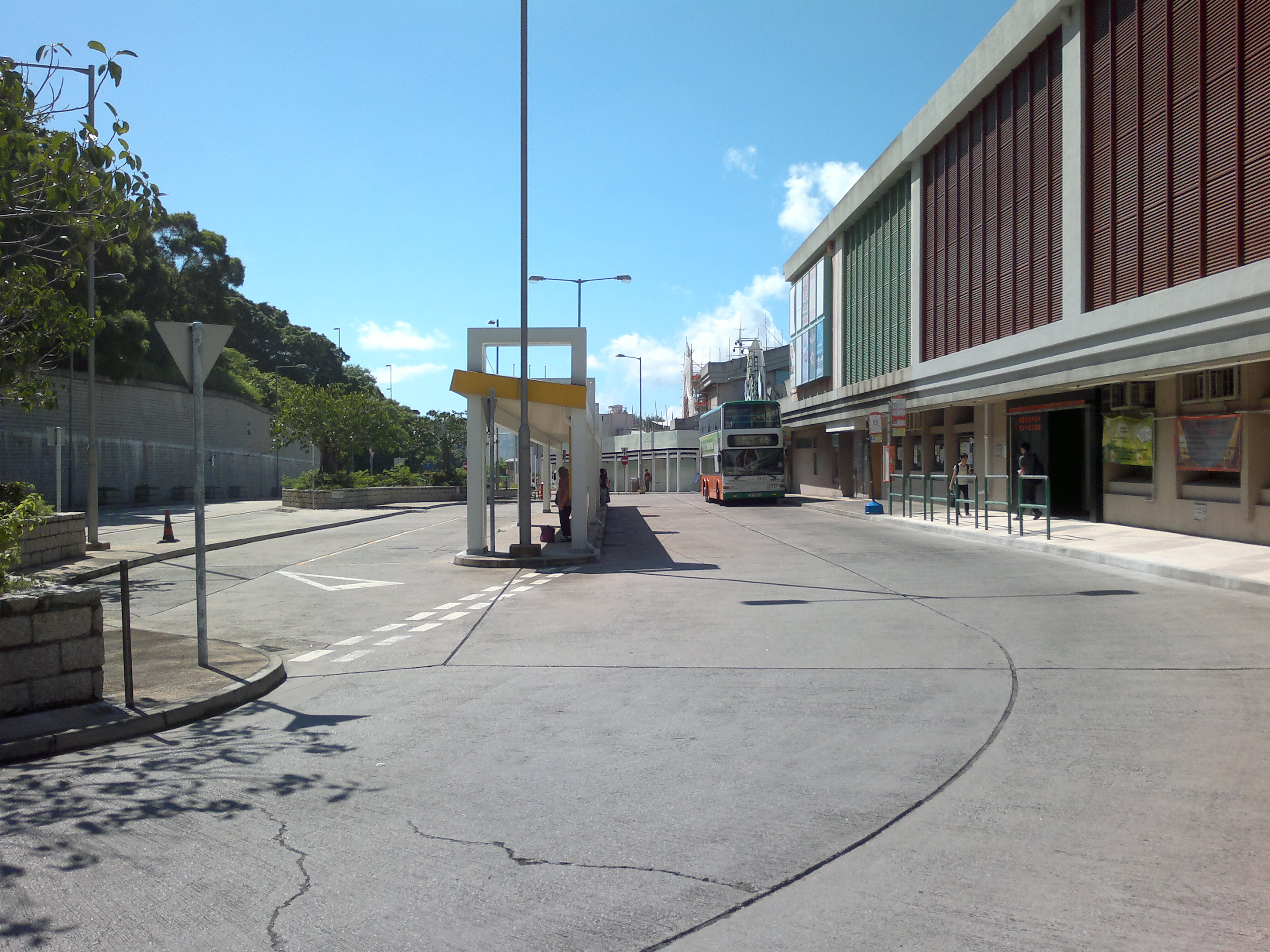 Ma Hang Bus Terminus